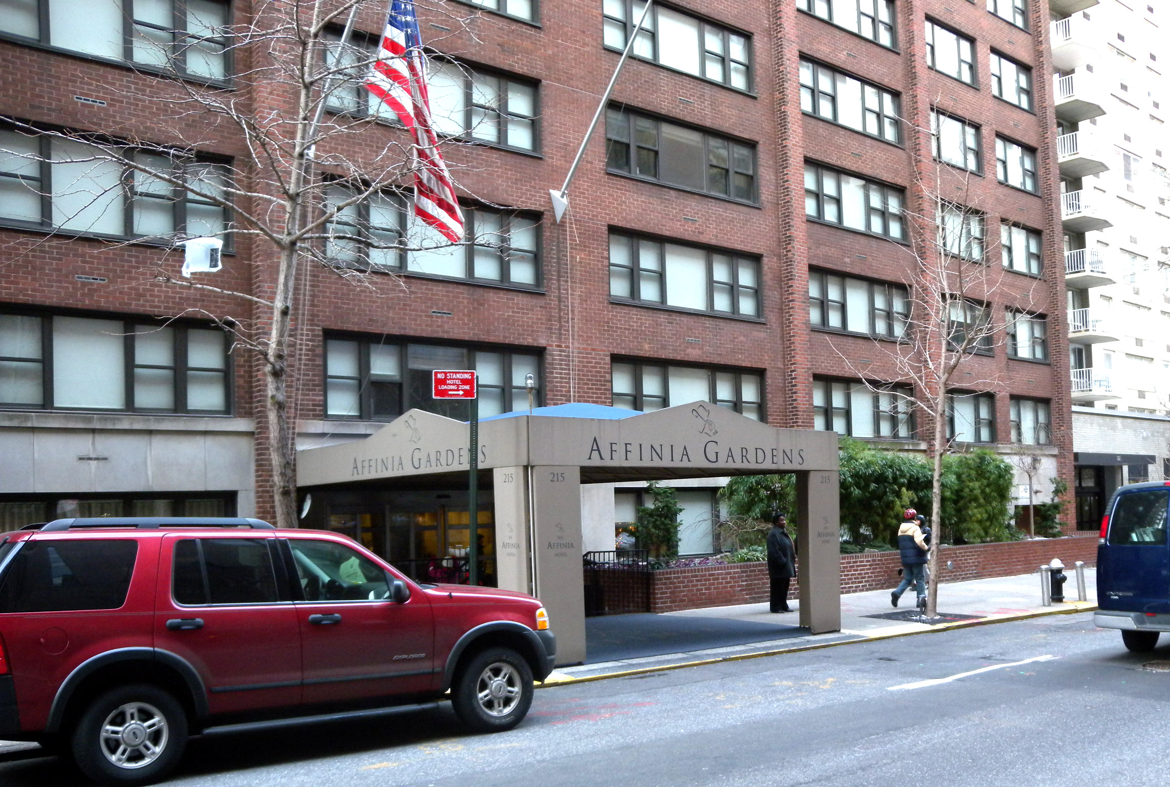 Looking east across East 64th Street at Affinia Hotels on a cloudy afternoon.